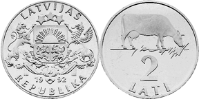 2 Lati Latvia 1992 Obverse: The large coat of arms of the Republic of Latvia, with the year 1992 inscribed below, is placed in the centre. The inscriptions LATVIJAS and REPUBLIKA, each arranged in a semicircle, are above and beneath the central motif, respectively. Reverse: A grazing cow, depicted in the upper part of the coin, is a symbol of the wealth of the Latvian countryside. The numeral 2, with the inscription LATI in a semicircle beneath it, is centered in the lower part of the coin. Edge: Two inscriptions LATVIJAS BANKA (Bank of Latvia), separated by rhombic dots.